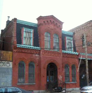 Looking north across Belvidere St at office of William Ulmer Brewery on a cloudy late afternoon.